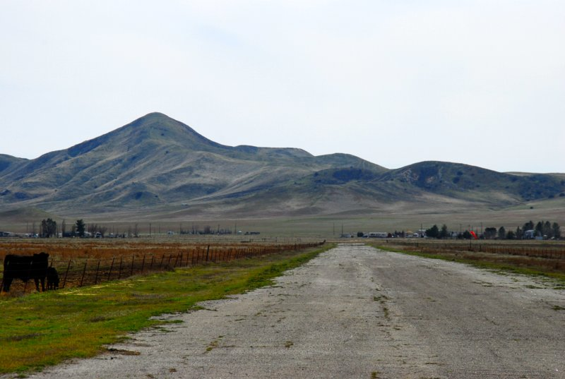 View from north end of California Valley Airport — Carrizo Plain. Located in San Luis Obispo County, central California.